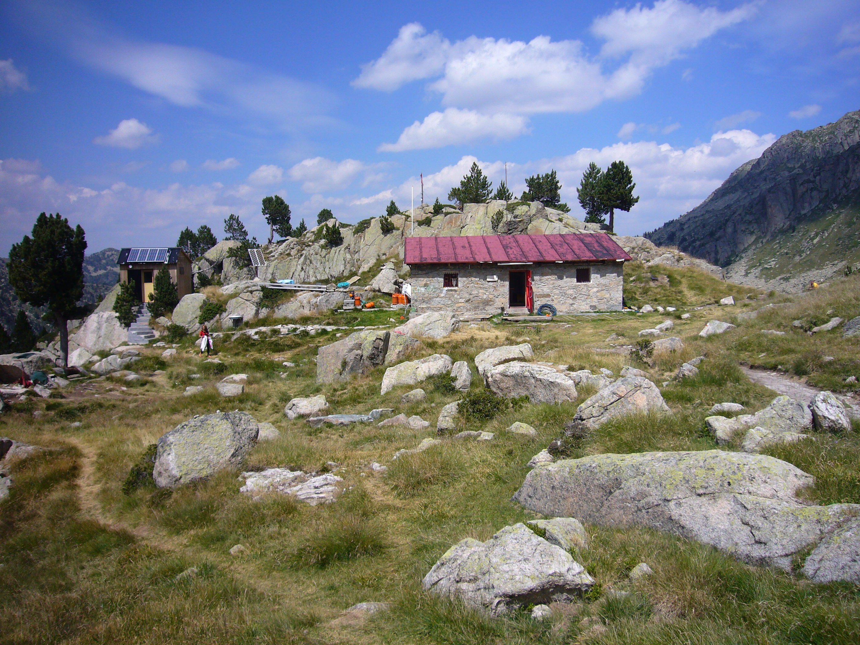 Saboredo refuge, Val d’Aran, Catalonia